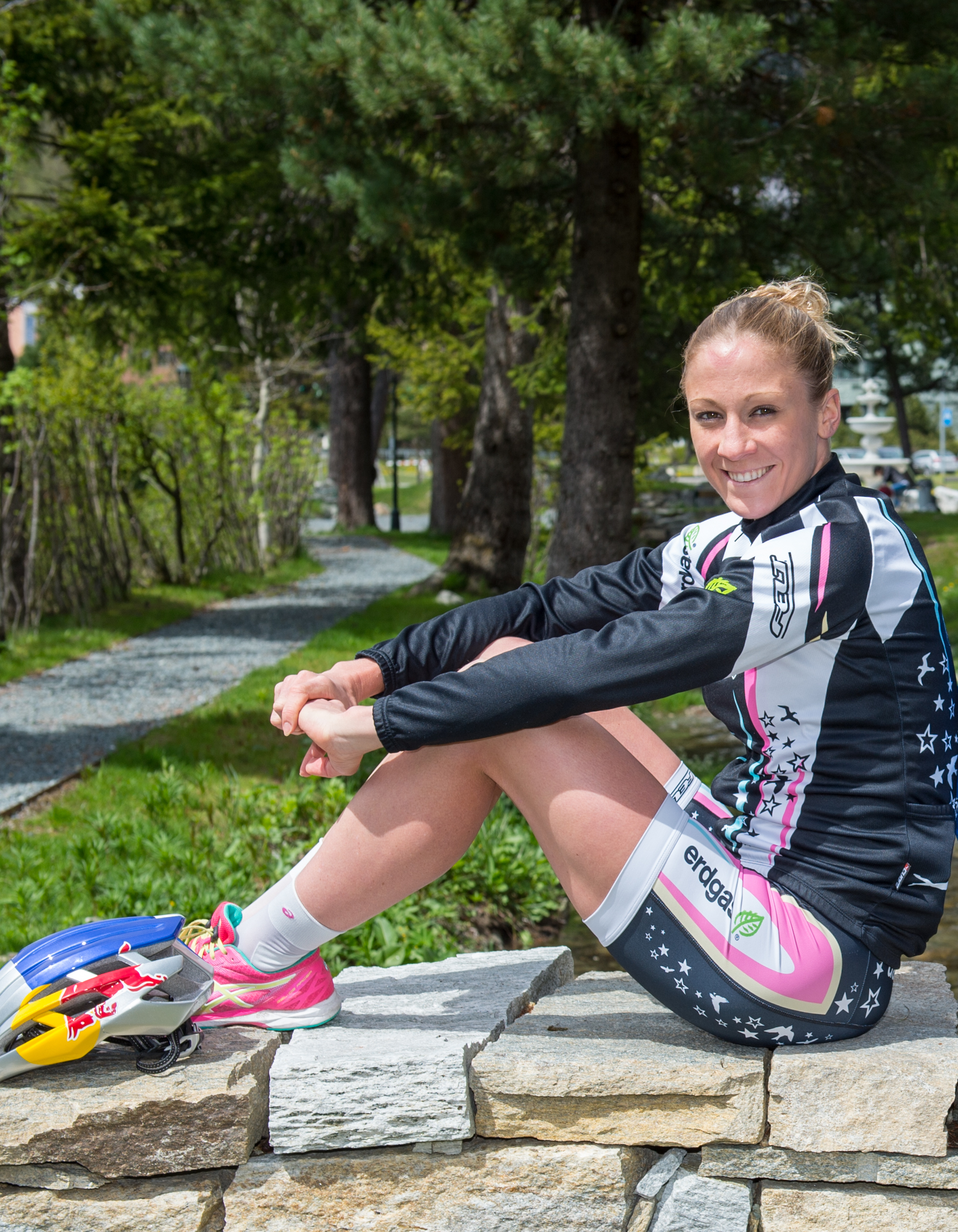 Triathlon Athlet Daniela Ryf (SUI) prepares in St.Moritz, Engadin for the coming racing season 2016 with Wolfgang Hoffmann (Activity Concierge, blue/white jacket)